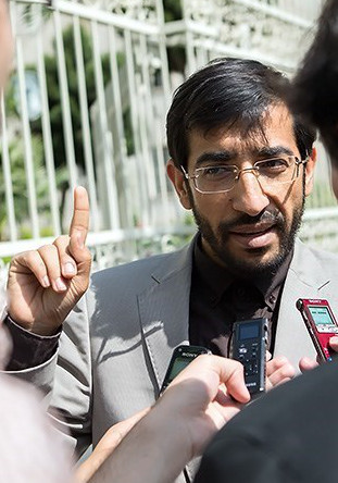 Aliakbar Heidarifar after sixth session of Kahrizak Trial.